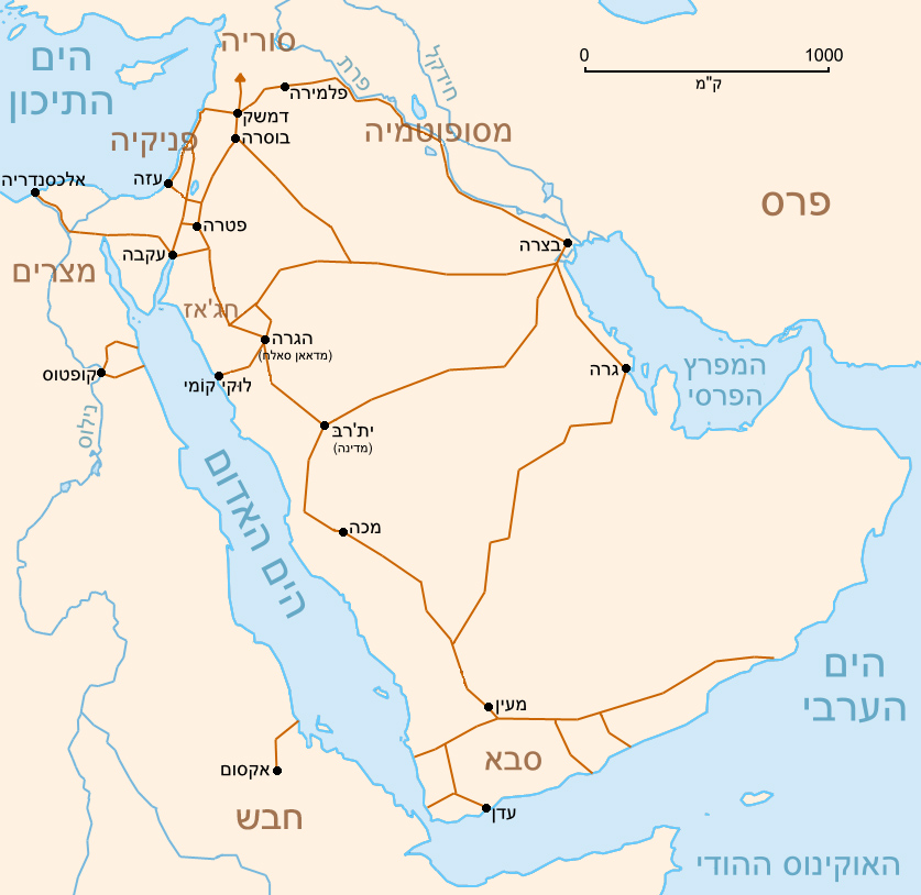 Nabataeans' commercial roads